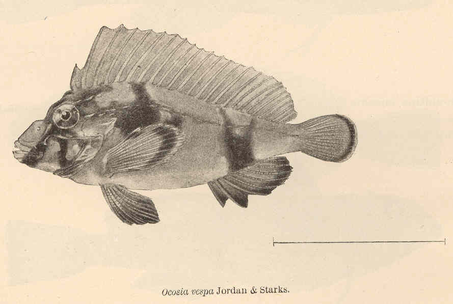 Ocosia vespa Jordan & Starks Subject: Scorpionfishes, ocosia Tag: Fish